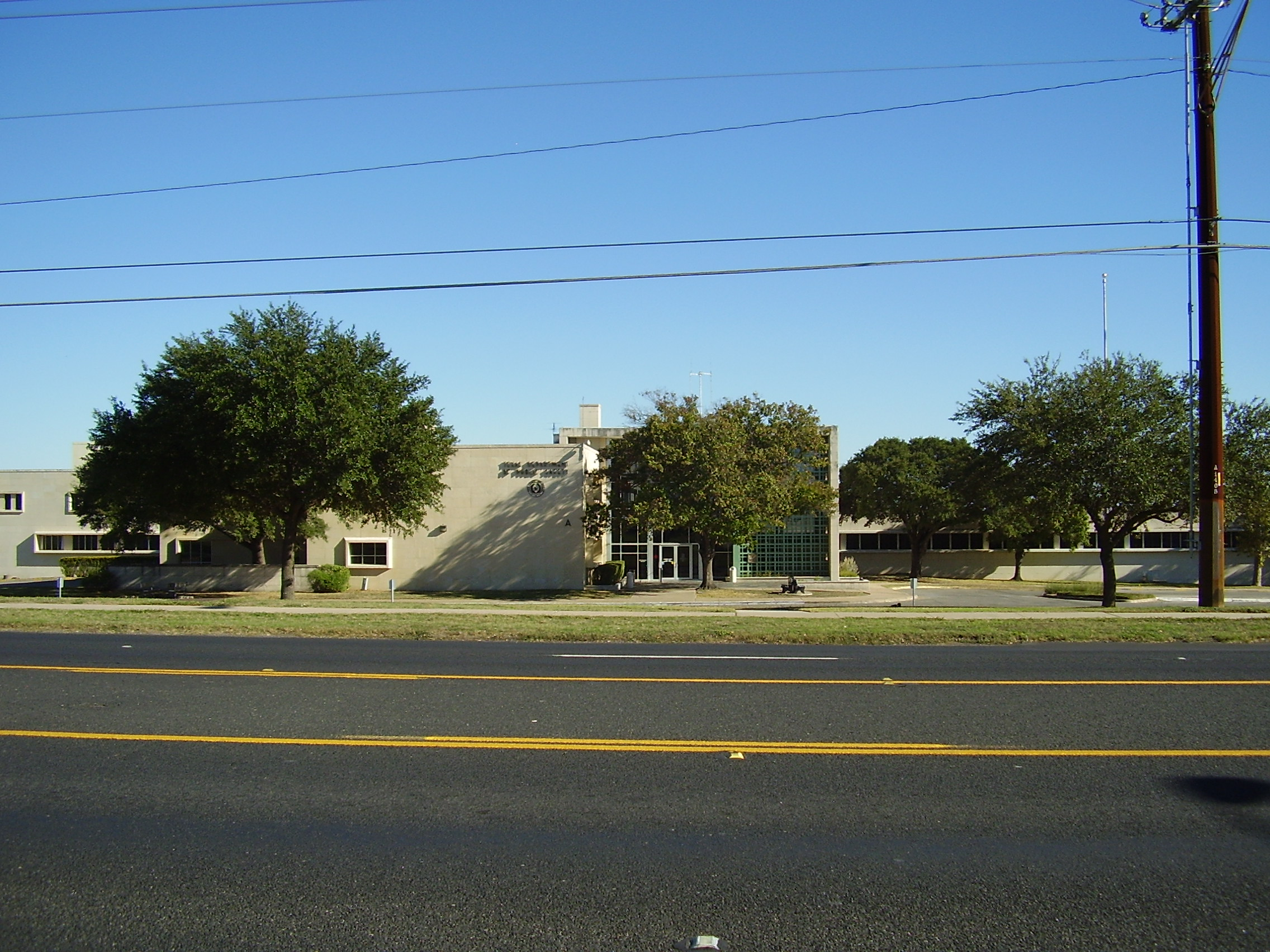 Texas Department of Public Safety headquarters - Austin, Texas, United States